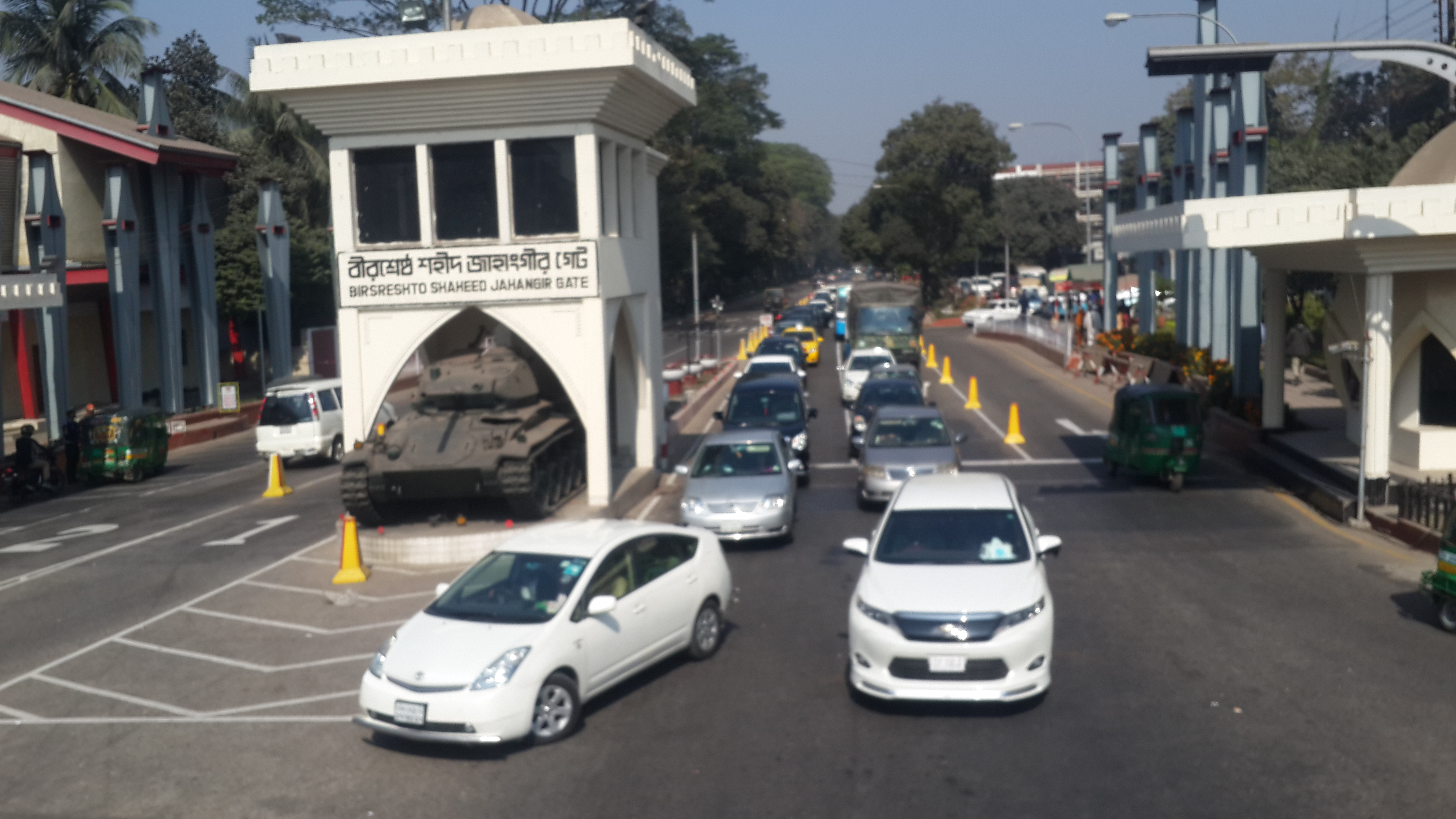 Front view of Birsreshto Shaheed Jahangir Gate, Dhaka cantonment. This gate was named after Mohiuddin Jahangir who was awarded the highest recognition of bravery in Bangladesh, Bir Sreshtho.